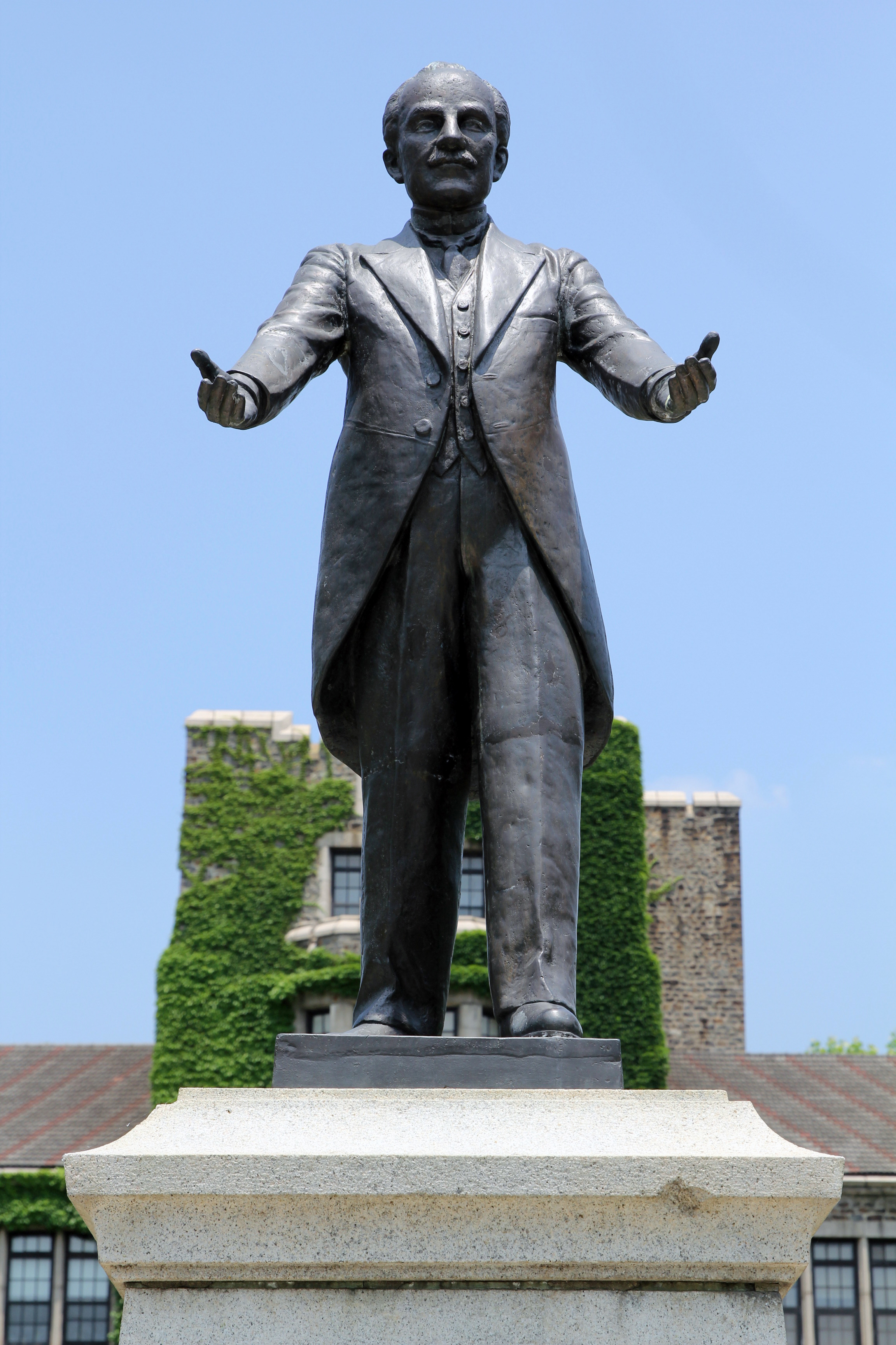 An elevated statue of Horace Grant Underwood at the entrance of the Underwood Courtyard (언더우드 뜰) in Yonsei Univ main campus.